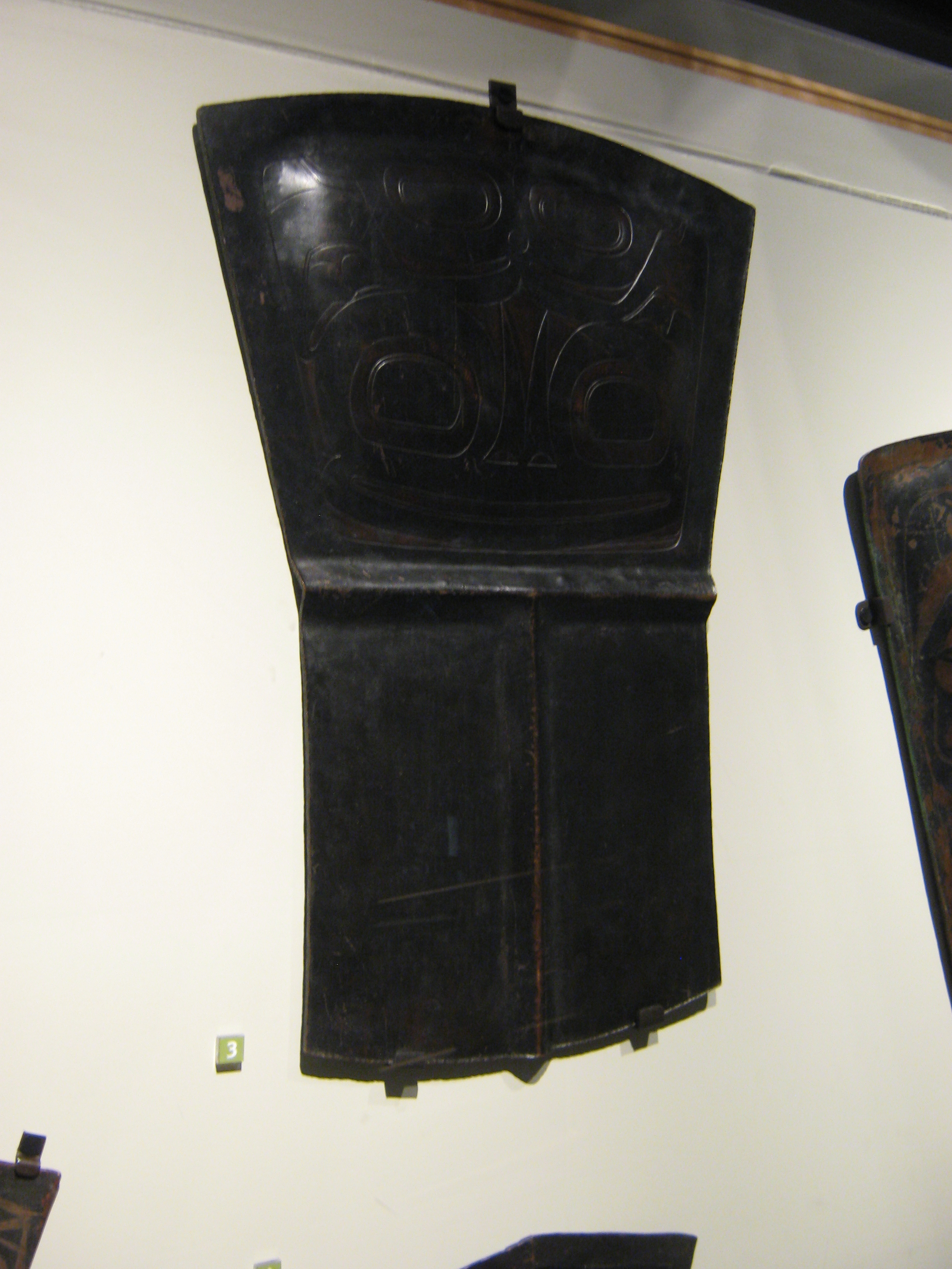 A 19th century northwest aboriginal "copper" photographed at the Canadian Museum of History, 30-Jun-2015